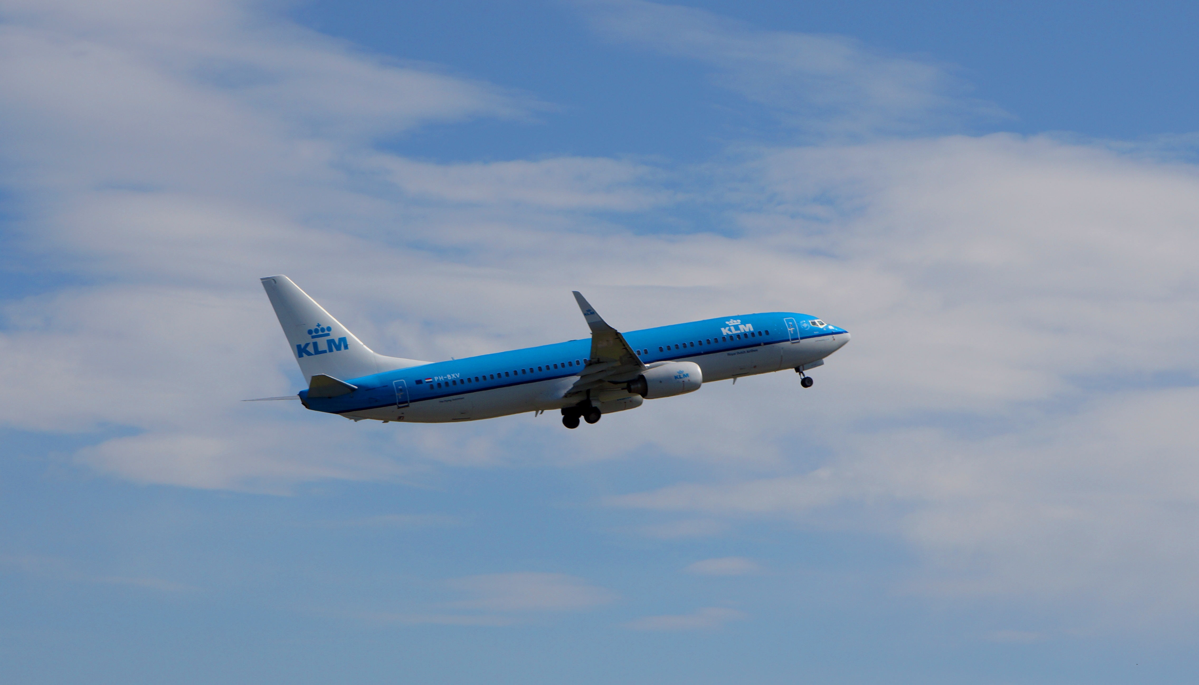 KLM aircraft at Manchester Airport